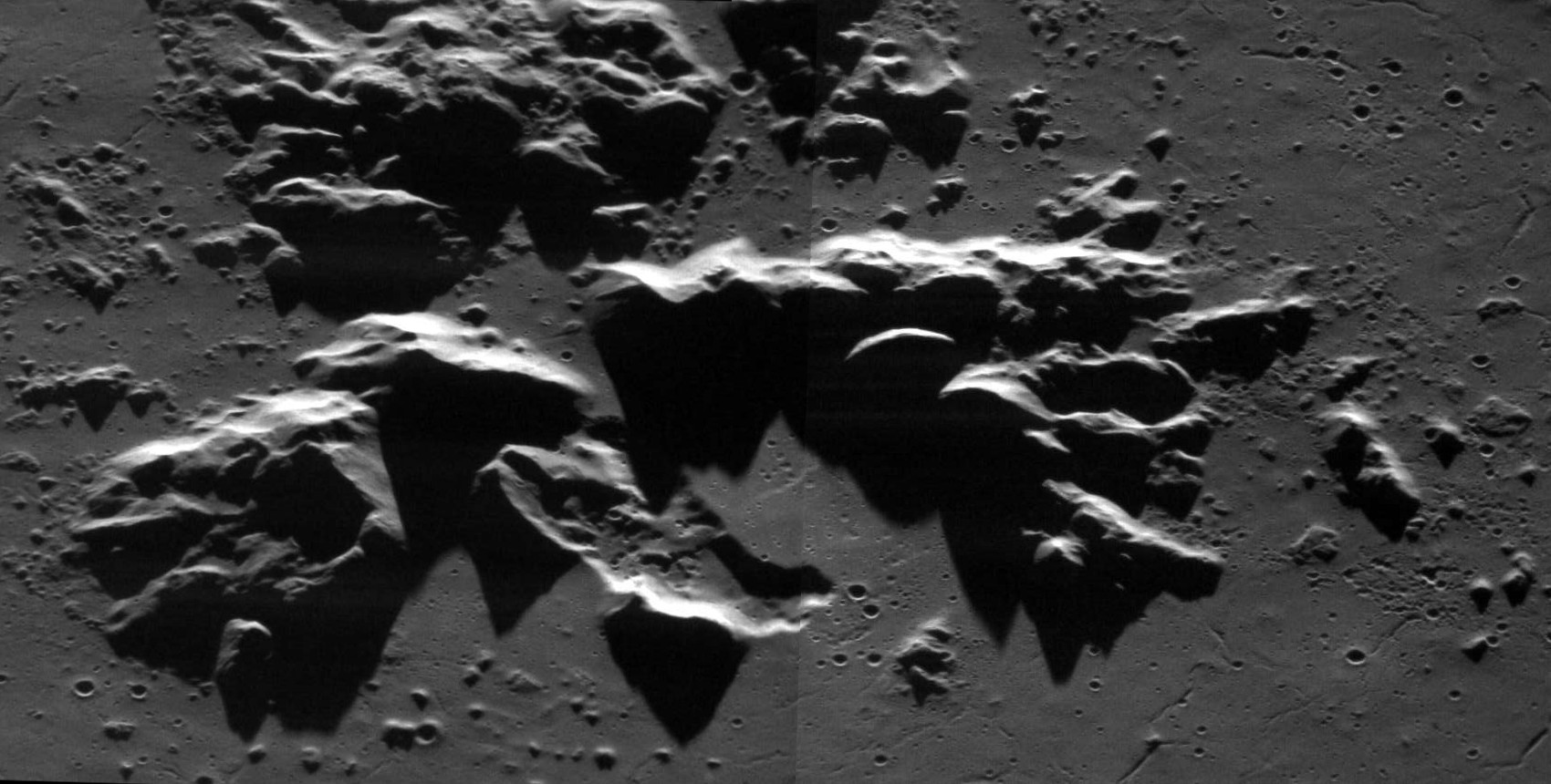 Mosaic showing Abedin crater's central peaks on Mercury, with the depression at bottom center which is believed to be volcanic in nature. MESSENGER Narrow Angle Camera images. Emission Angle: 42.5 Incidence Angle: 79.5 Latitude: 61.6 Longitude: 349.4 Phase Angle: 122.5